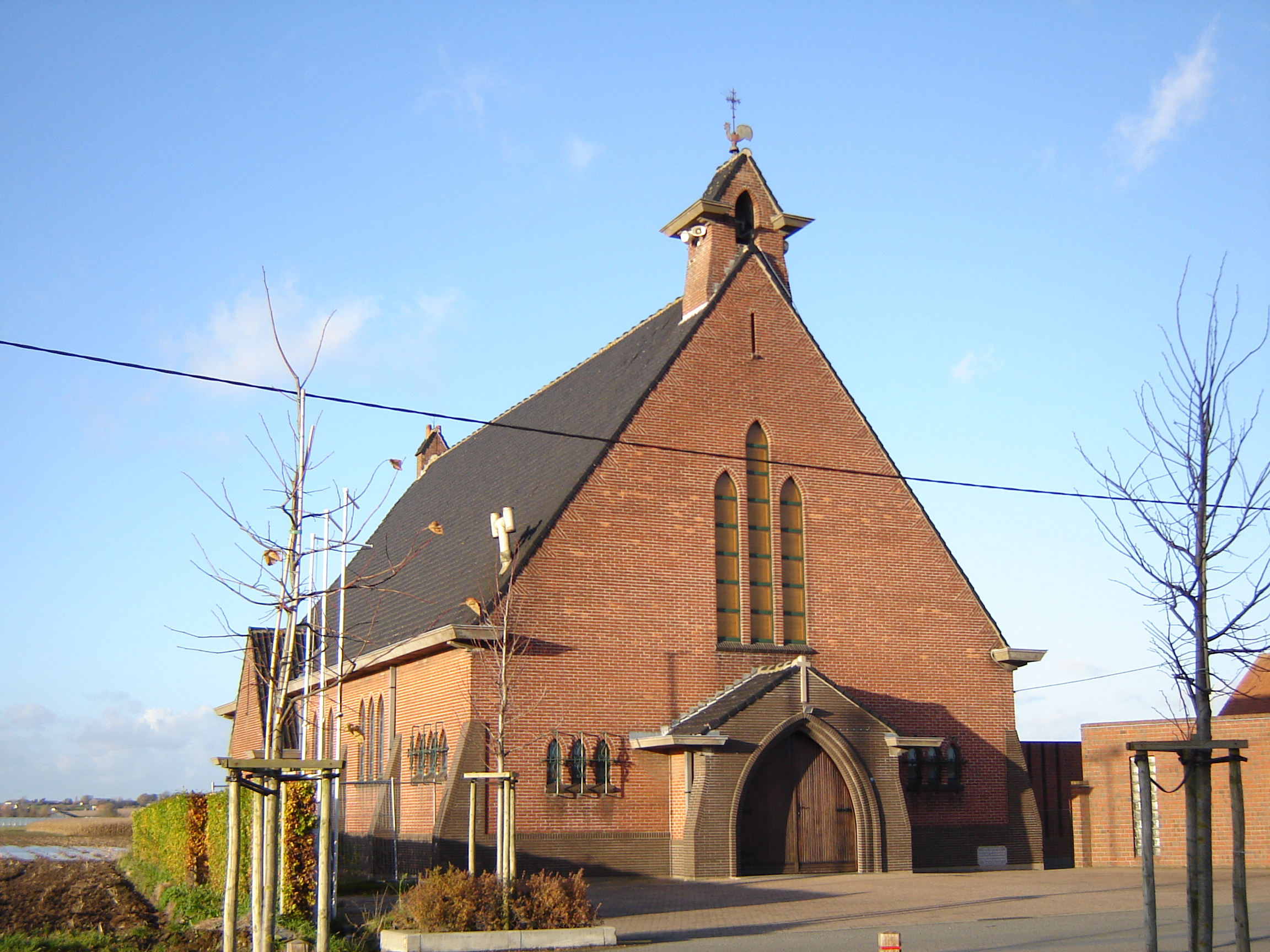 Church of Saint Christopher in Sint-Kristoffel (town quarter on the border of Houthulst and Klerken). Sint-Kirstoffel, Houthulst, West Flanders, Belgium